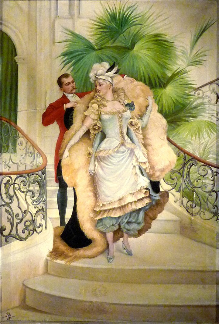 Gentleman and lady